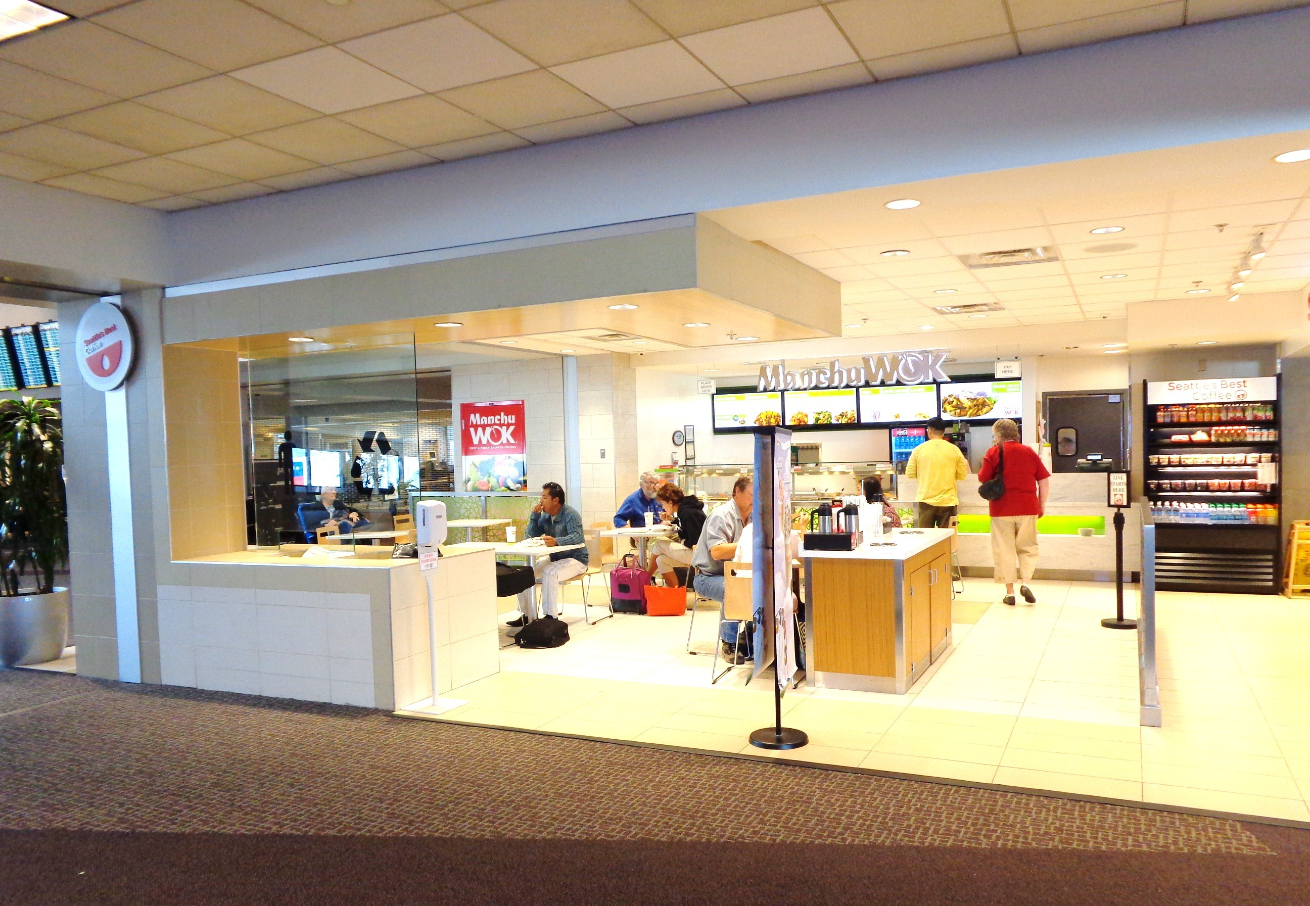 The restaurant Manchu Wok at the airport in Salt Lake City, Utah, USA in May 2014.